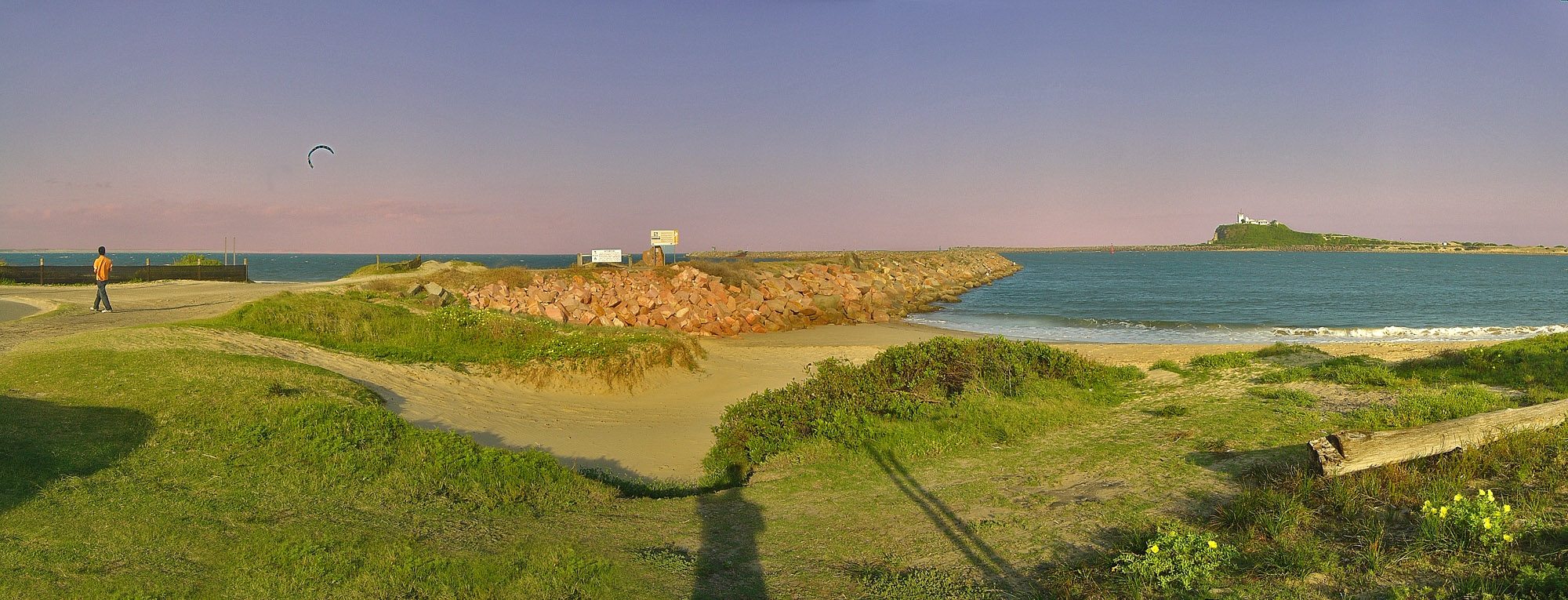 Stockon, NSW, Australia